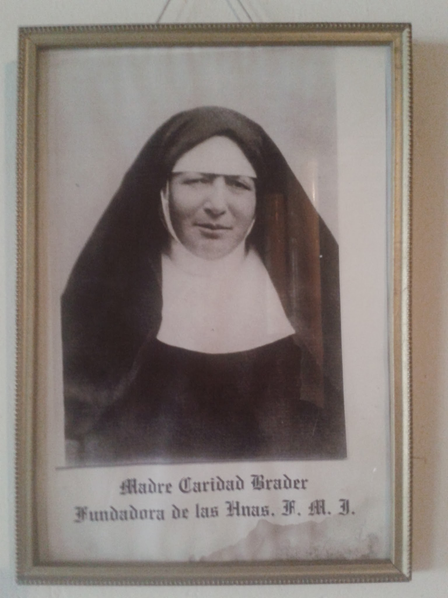 Photo of Mother Caridad Brader, founder of the Franciscan Congregation of Mary Immaculate, located in the Santa Clara Normal Superior School